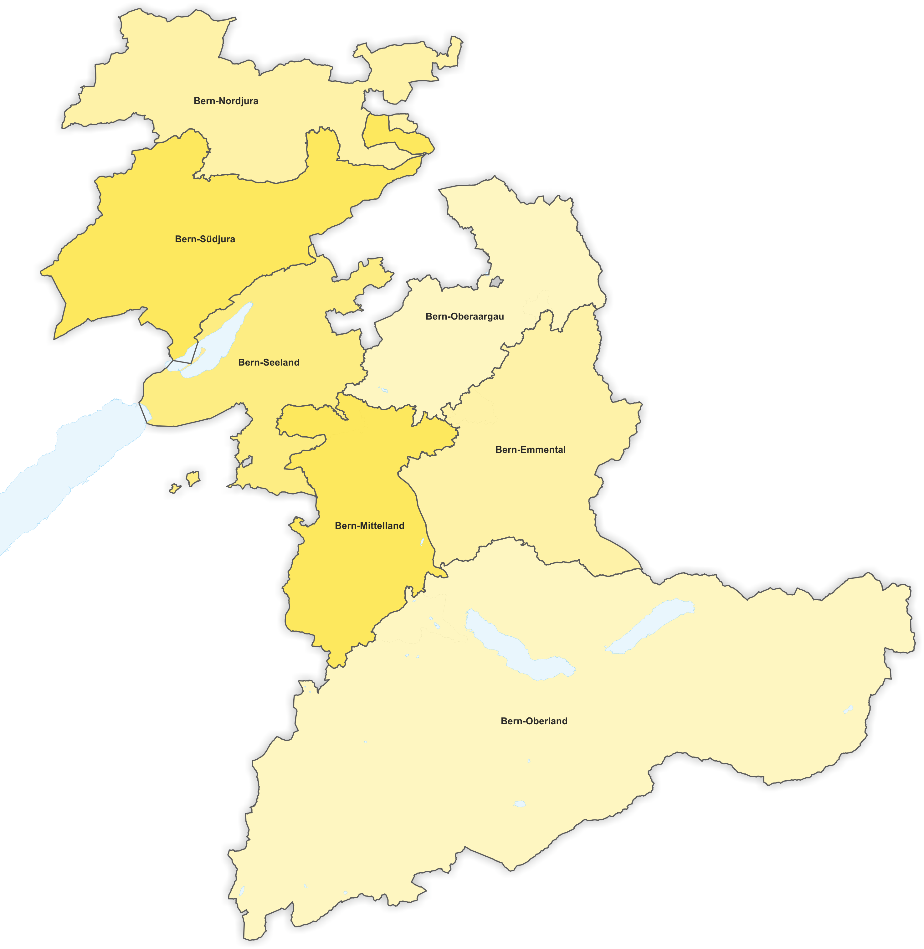 National council constituencies in the canton of Bern from 1911 to 1917